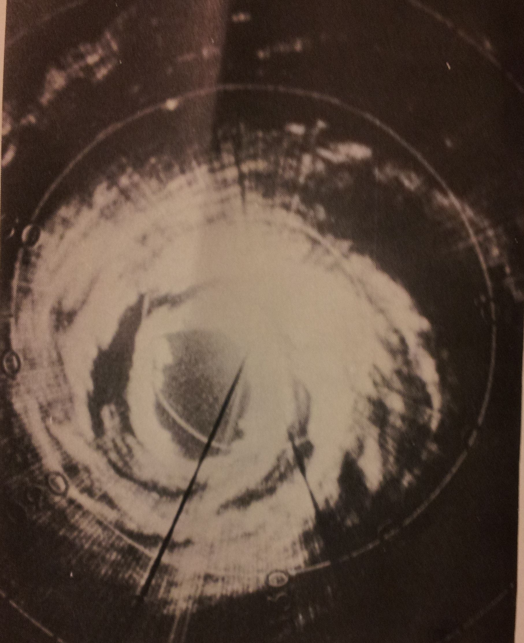 This radar image from a Navy reconnaissance aircraft of Hurricane Debbie was taken on August 20, 1969 around 1519 UTC.